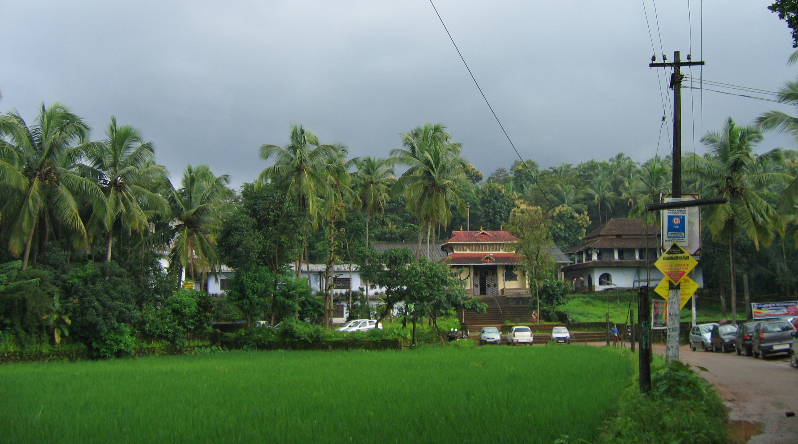 Mattannur Mahadeva Temple, Kerala